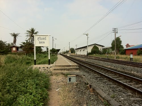 Surin Railway Station.